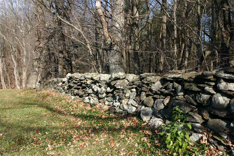 Description: Photograph of a rock fence taken in Guilford, Vermont. Source: Photograph taken by Jared C. Benedict on 06 November 2004. Copyright: © Jared C. Benedict.